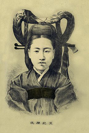 Empress Myeongseong